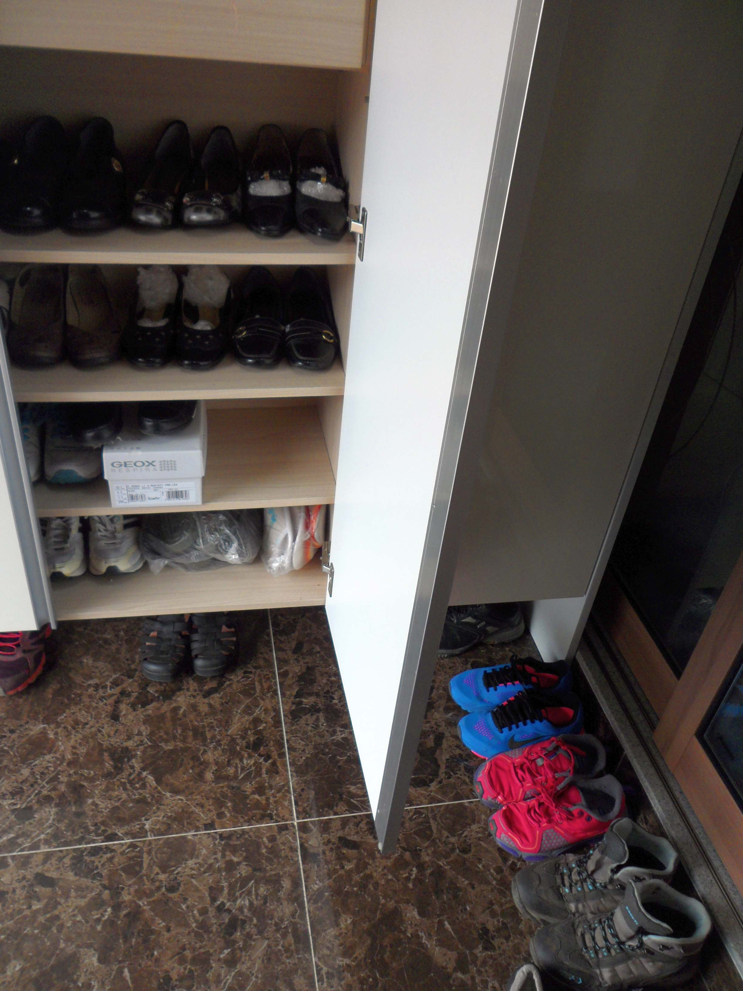 토방 (Tobang) in Korea, with shoe shelf aside